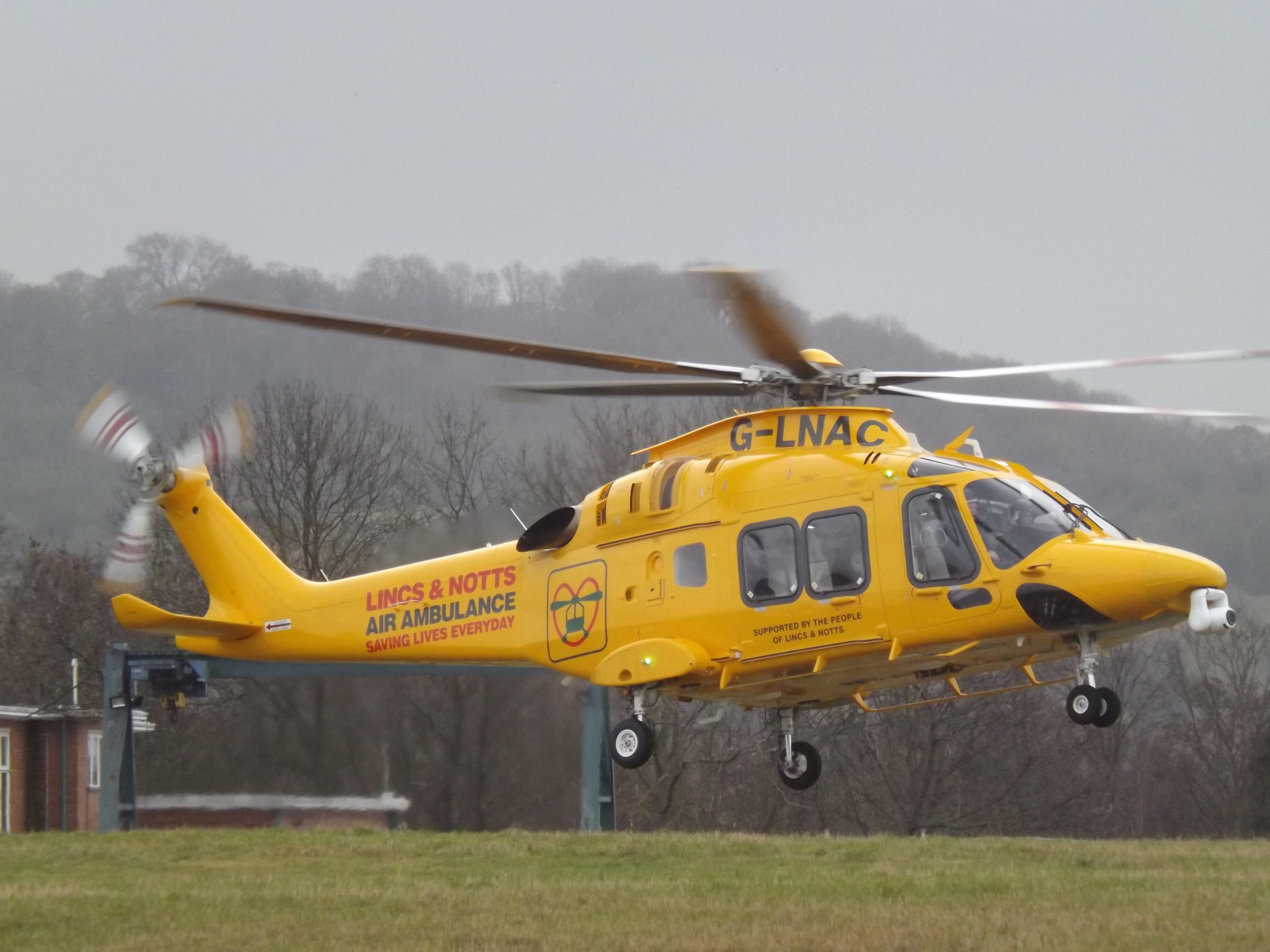 G-LNAC Agusta Westland 169 Helicopter Specialist Aviation Services Ltd